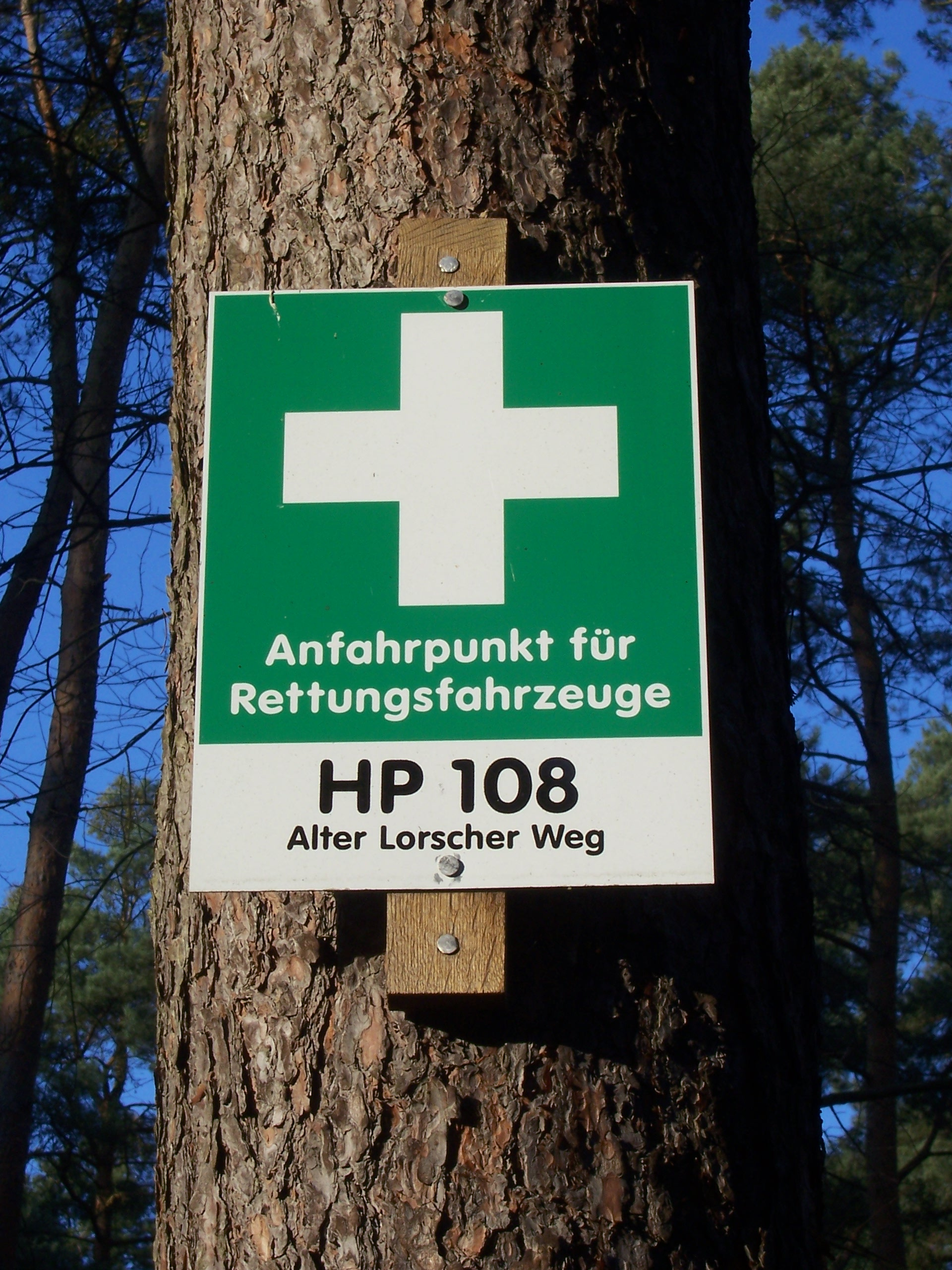 Sign for an emergency access point